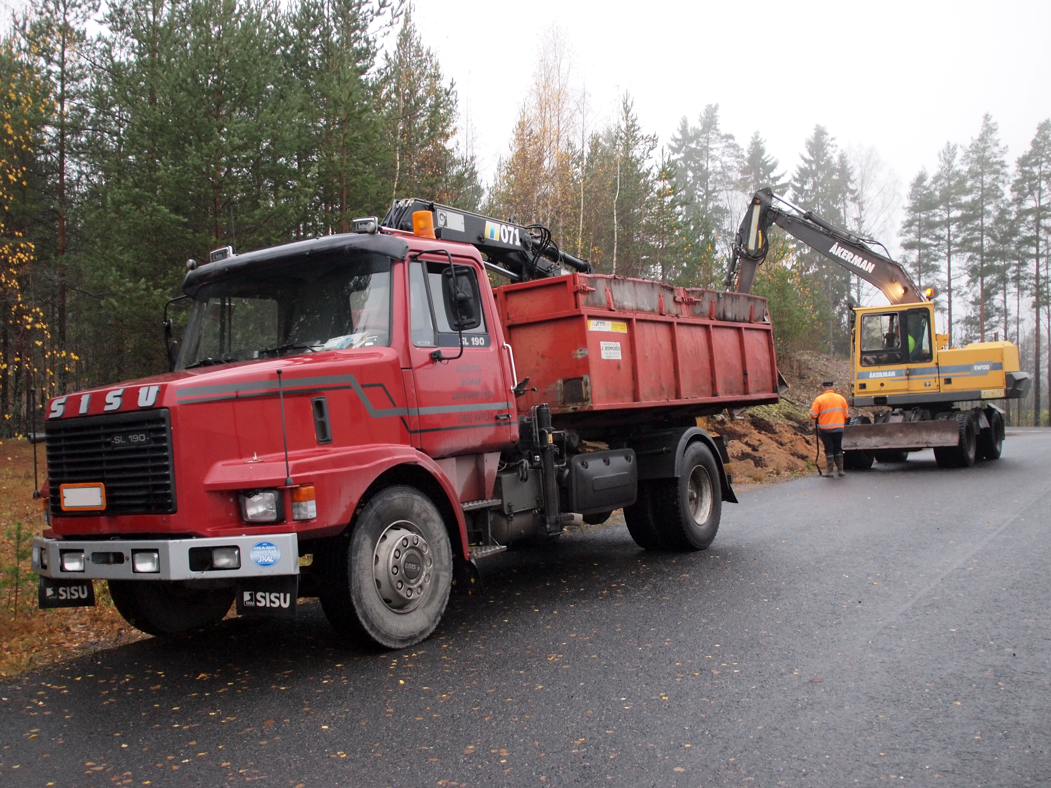 Sisu SL 190 hard at work in Lappeenranta, Finland.